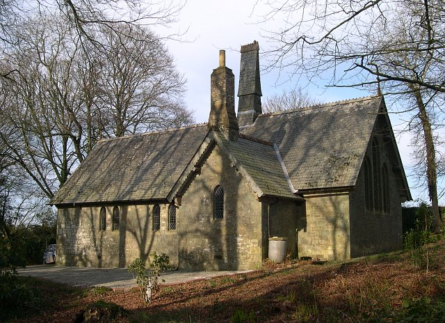 St Mark's Mission Church, Sticker. This is a mission church, i.e. one that was built to allow people to worship locally as the parish church, St Mewan, is at some distance from the village of Sticker. The church was opened in 1877 and has a regular and dedicated congregation. Inside, the church is plain but with a friendly feel to it. My thanks to the parish priest for allowing me a look inside and for most of the above information. I note that at the time of writing a couple of other websites which purport to show a photograph of this church have misidentified the old church hall as the church itself.